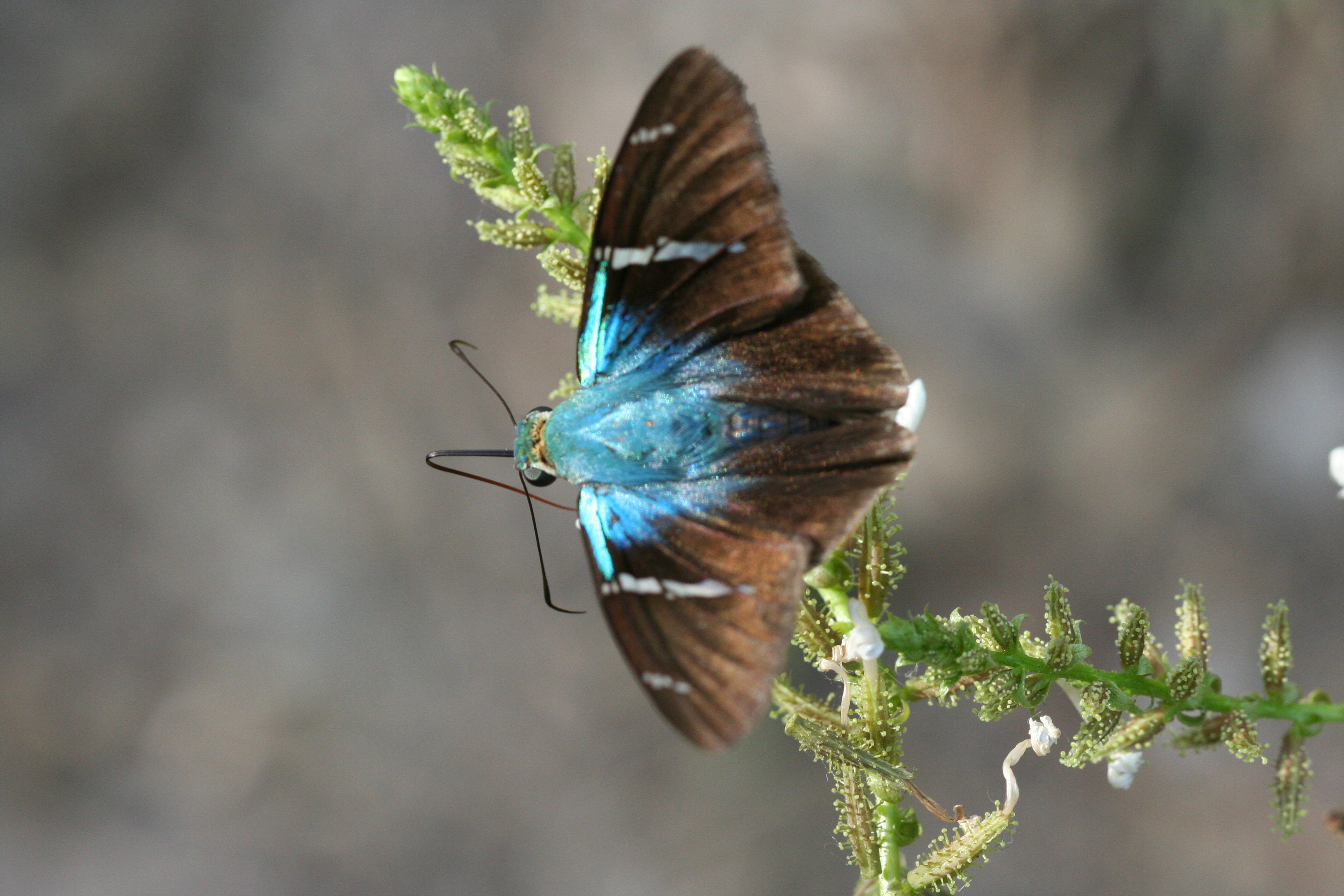 Two-barred flasher (Astraptes fulgerator). Rio Grande Valley, Texas, USA.